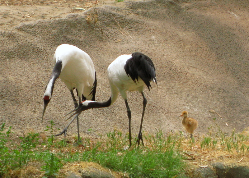 Red-crowned Crane (also called the Japanese Crane or Manchurian Crane) with a ten-day old chick. Photographed at San Diego Zoo, USA.